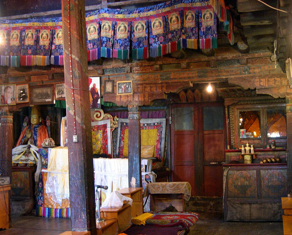 Tikse monastery, Ladakh (India)